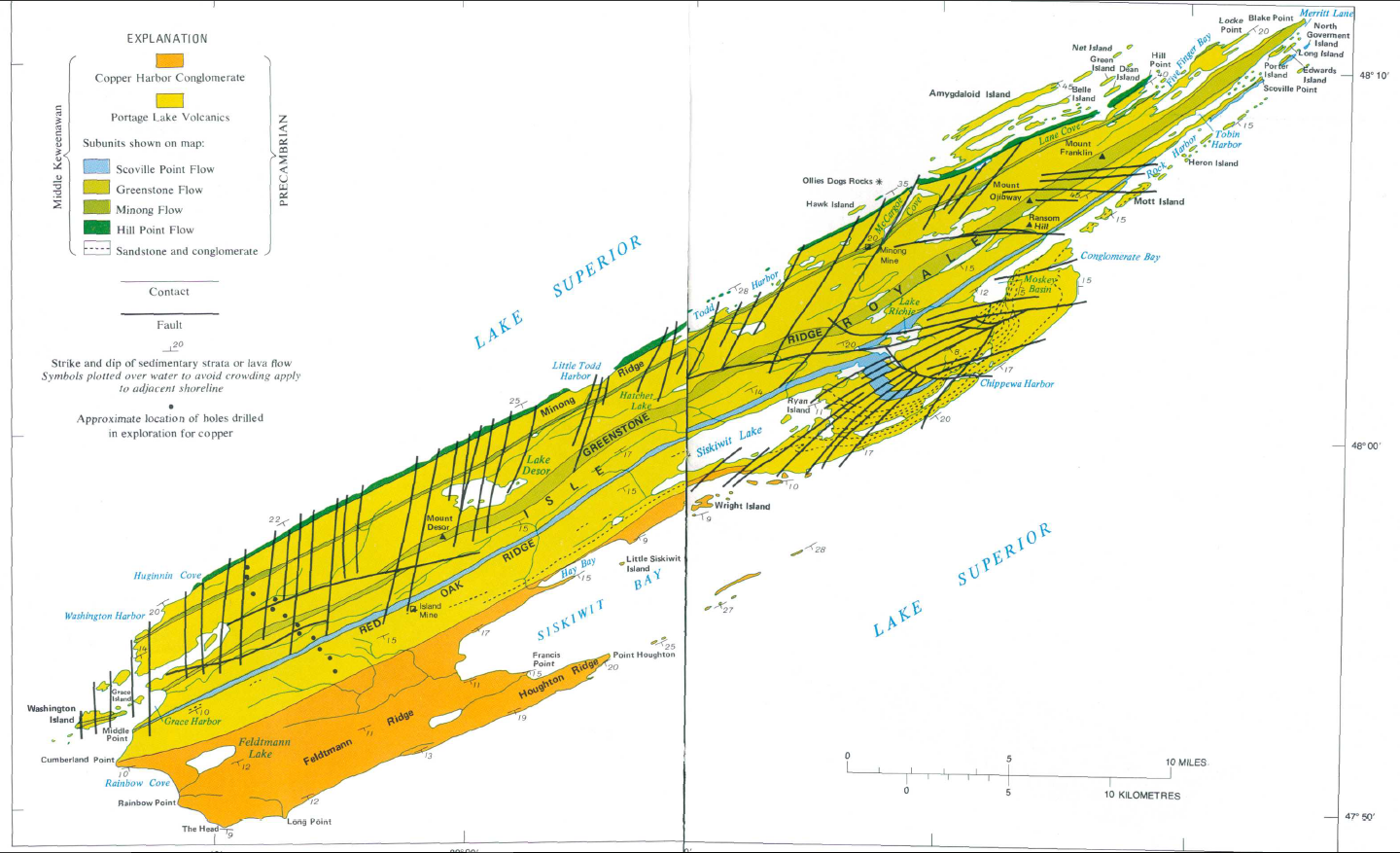 USGS Isle Royale geologic map